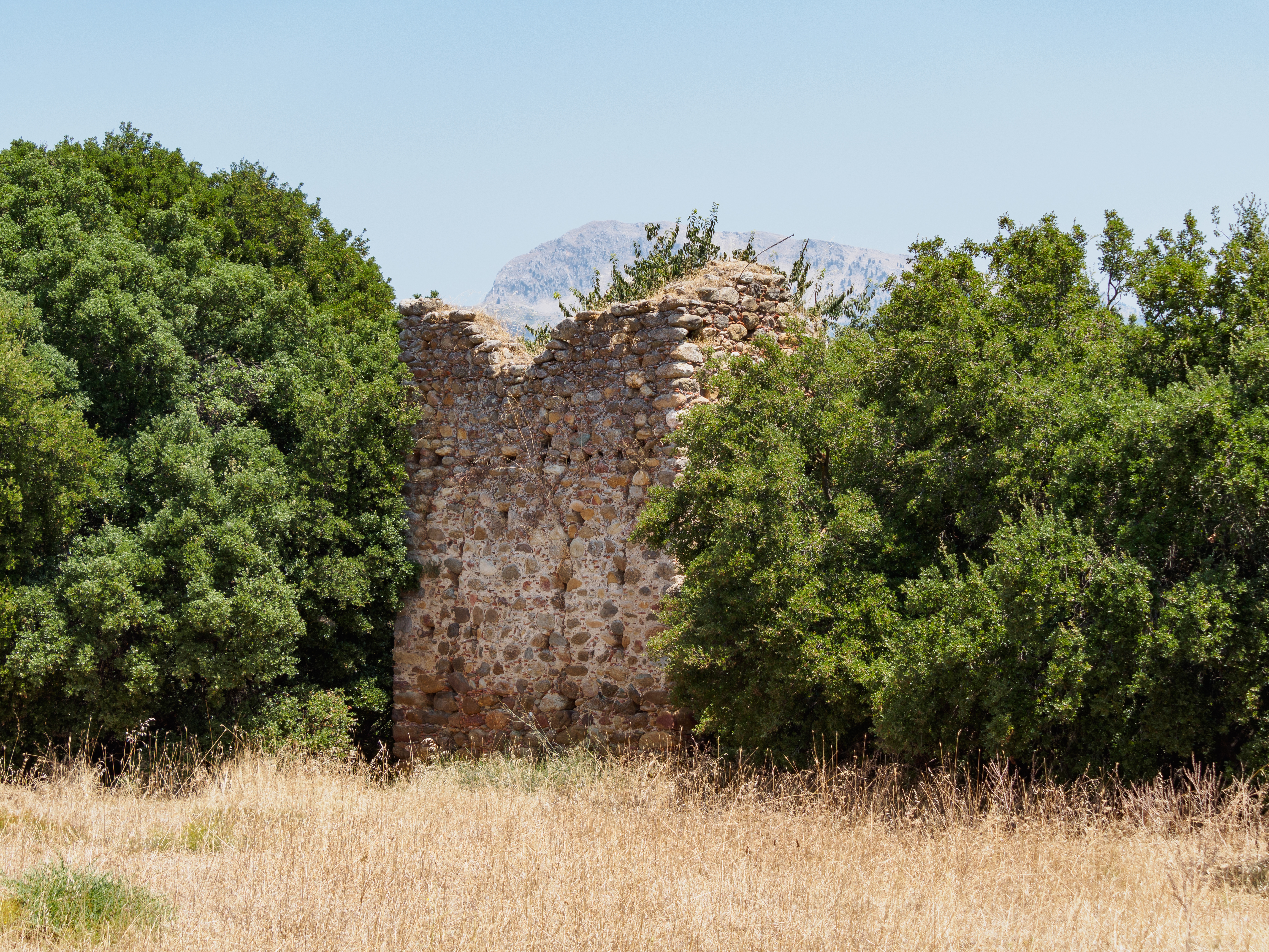 The ruins of the medieval towe of Amphithea, Euboea.